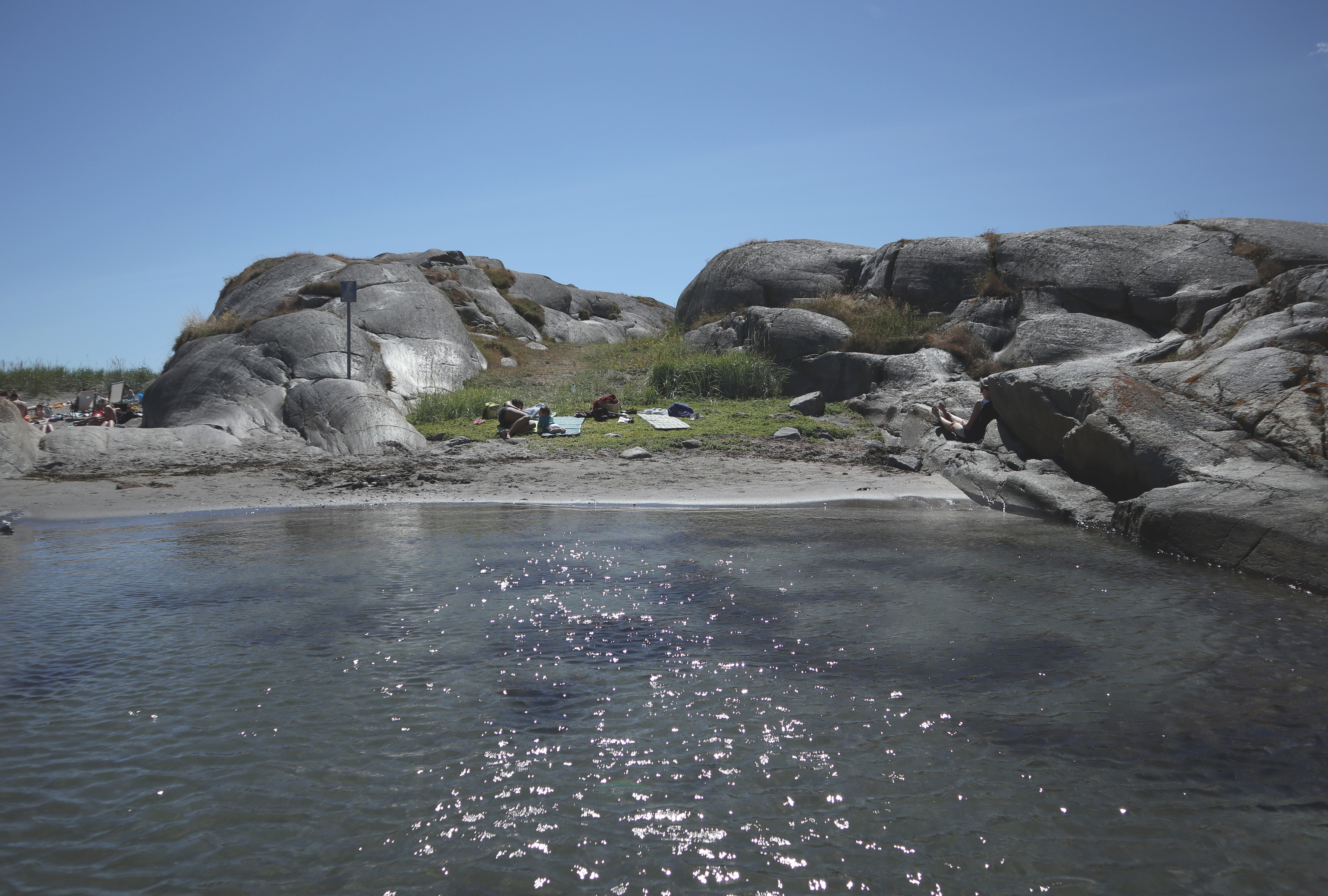 Mostranda Tjøme